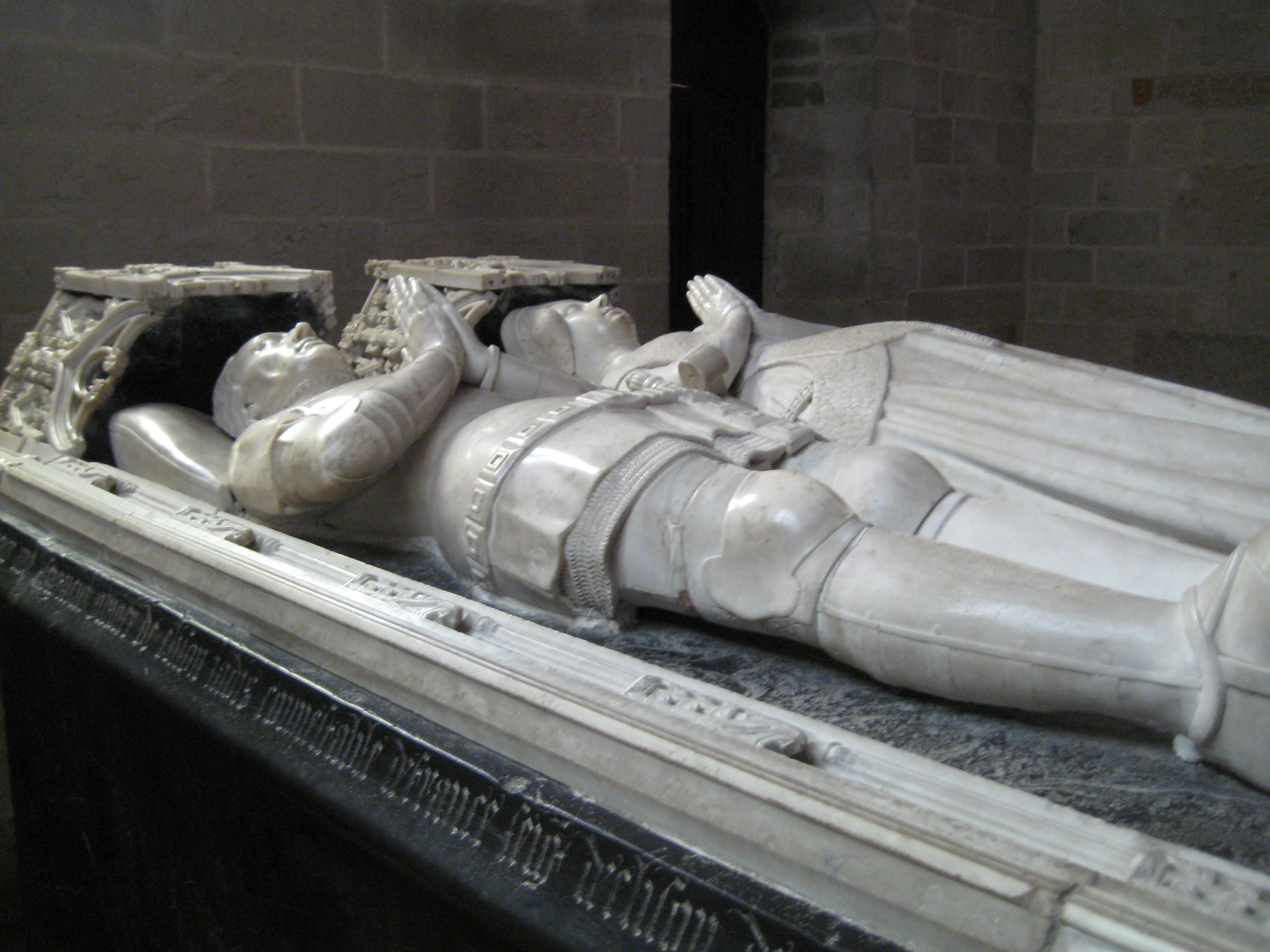 Effigy of Olivier de Clisson and his wife, in the church of Josselin, France